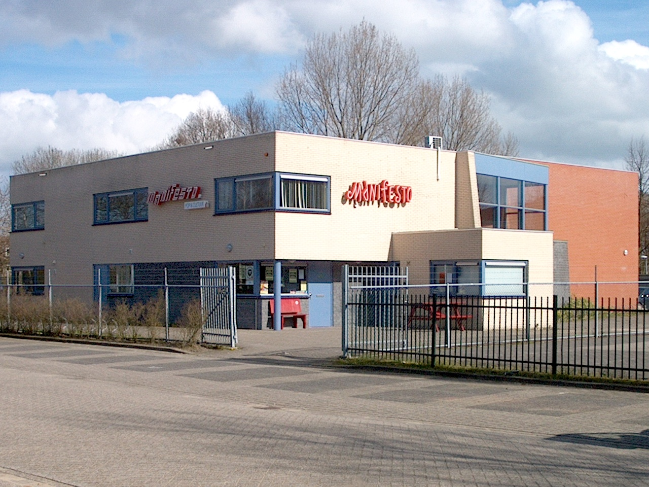 Jongerencentrum Manifesto, Hoorn, Nederland.